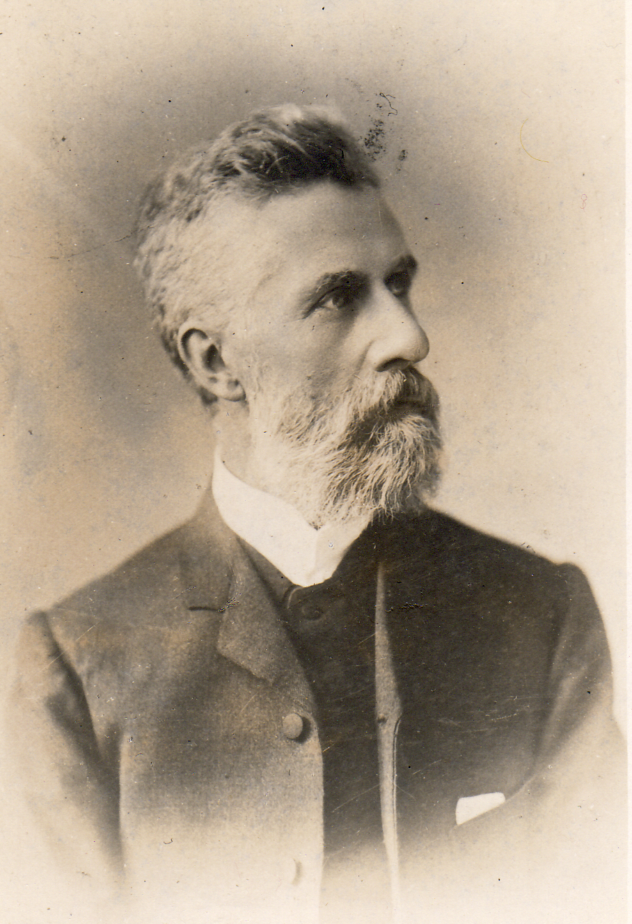 Henry Hayes Vowles (born at Victoria Park Farm, 26 June 1843, Bath, England and died 13 November 1905, Gloucester, England) was an English author, theologian and a Wesleyan Minister. He also published religious poetry.